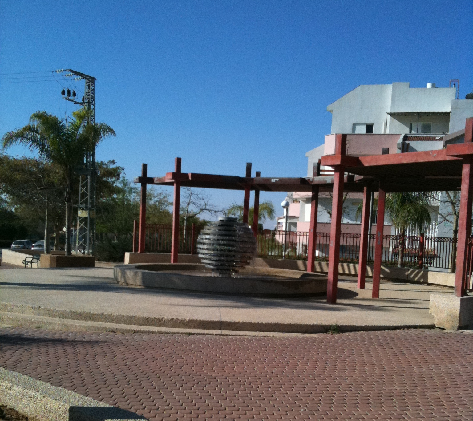 Ramot, Beersheva, Israel